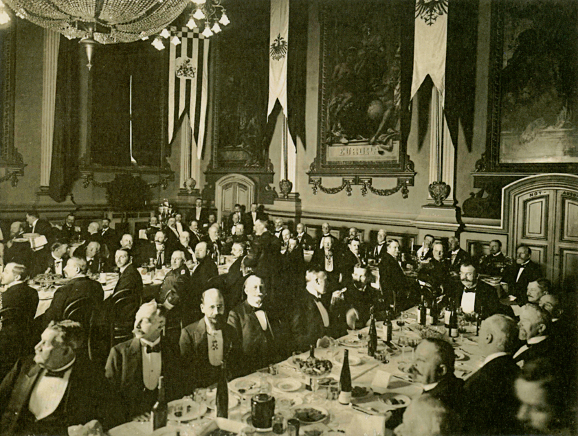 Photography of the Schaffermahlzeit banquet from the year 1912, in Bremen (Germany). This was the first time photos were taken at the event. Guest of honor was Graf Ferdinand von Zeppelin.